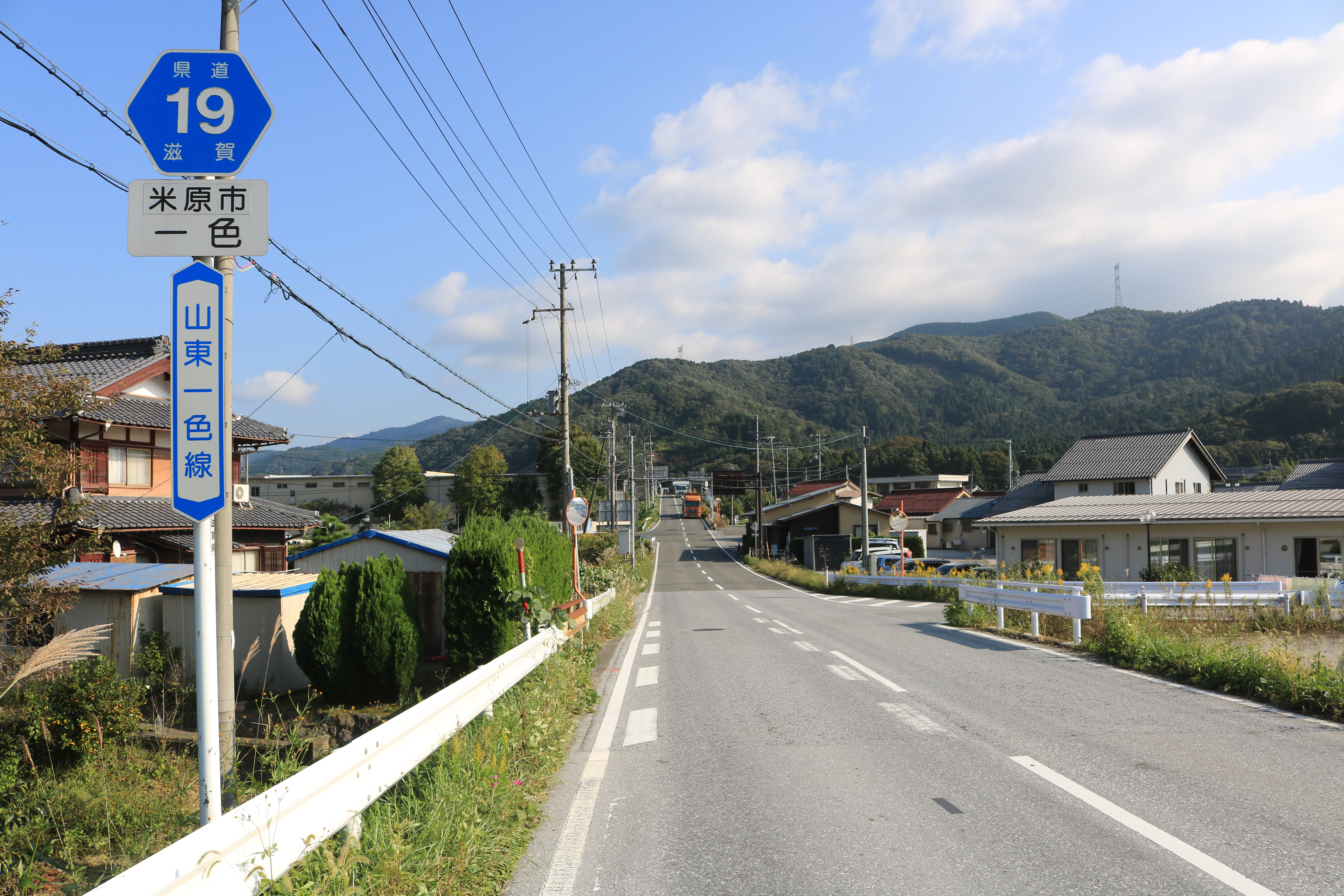 Shiga Prefectural Road Route 19 (Santō-Isshiki Line) in Isshiki, Maibara, Shiga prefecture, Japan.